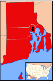 The Catholic Diocese of Providence encompasses the entire state of Rhode Island, USA.